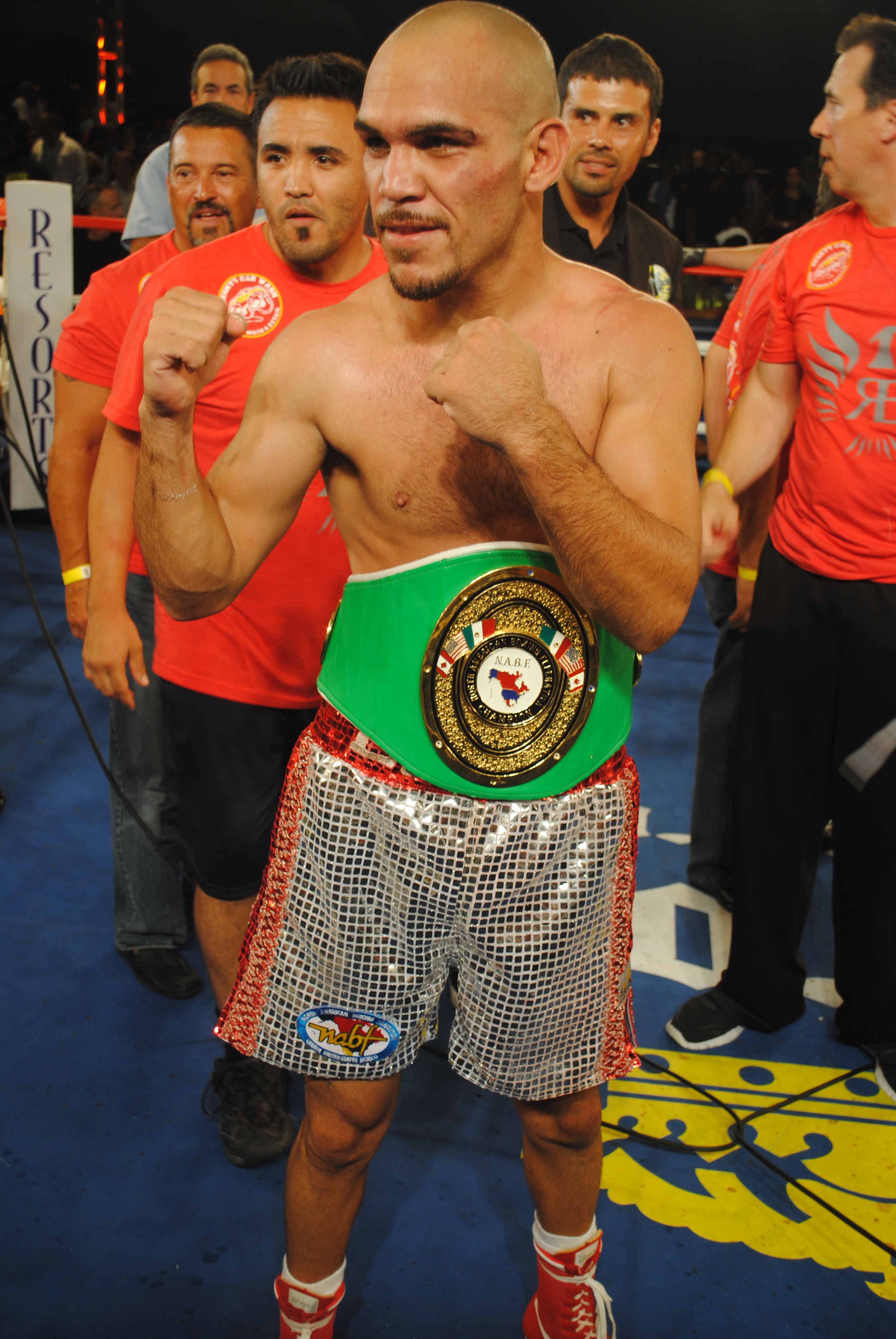 Raymundo Beltran in the ring at Resorts Casino Atlantic City, New Jersey, July 27, 2012, after winning the NABF lightweight title by majority decision over Henry Lundy. Photo by sports reporter Robert Brizel.